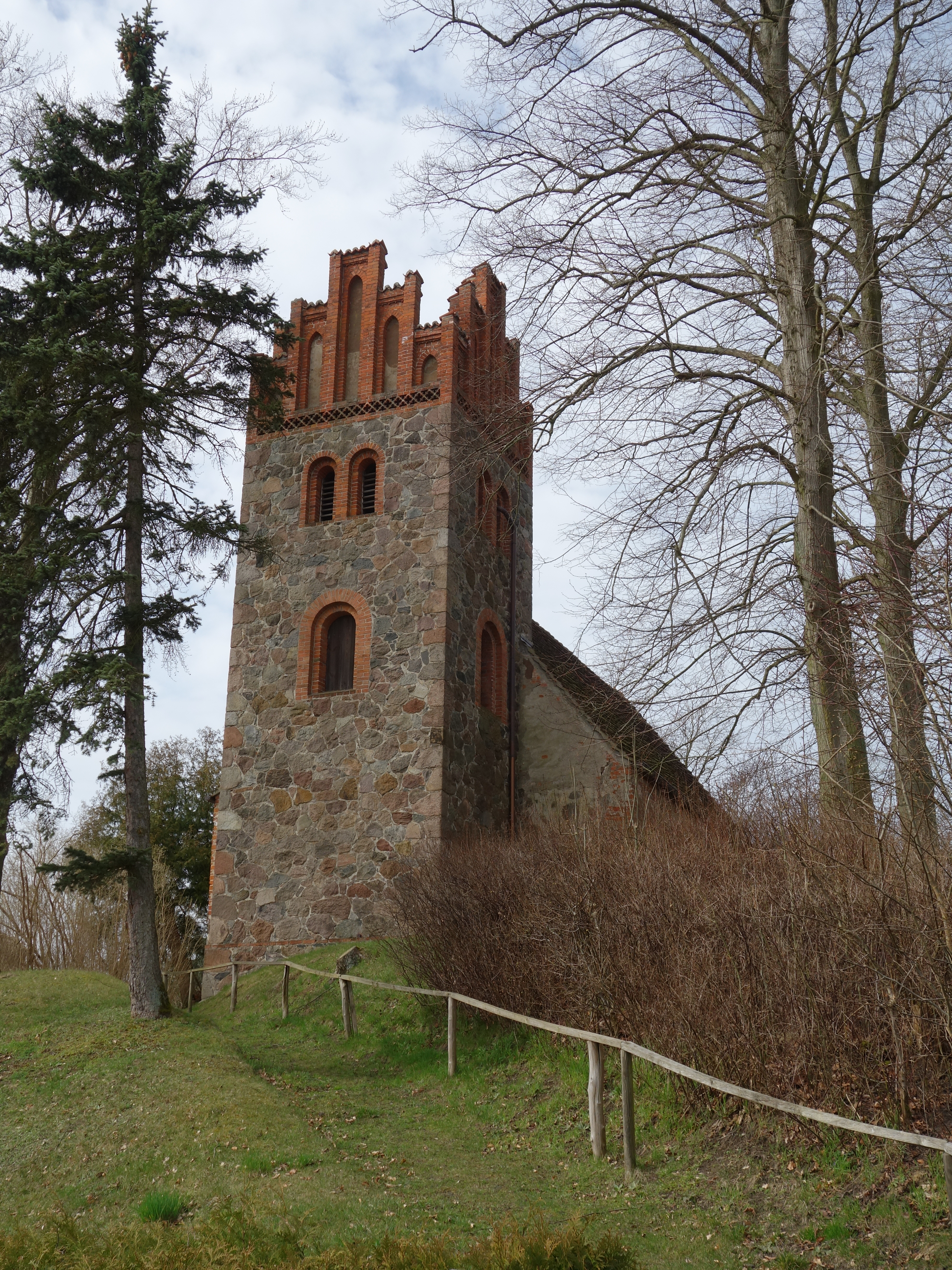 North-eastern view of church in Herzsprung, Heiligengrabe municipality, Ostprignitz-Ruppin district, Brandenburg state, Germany